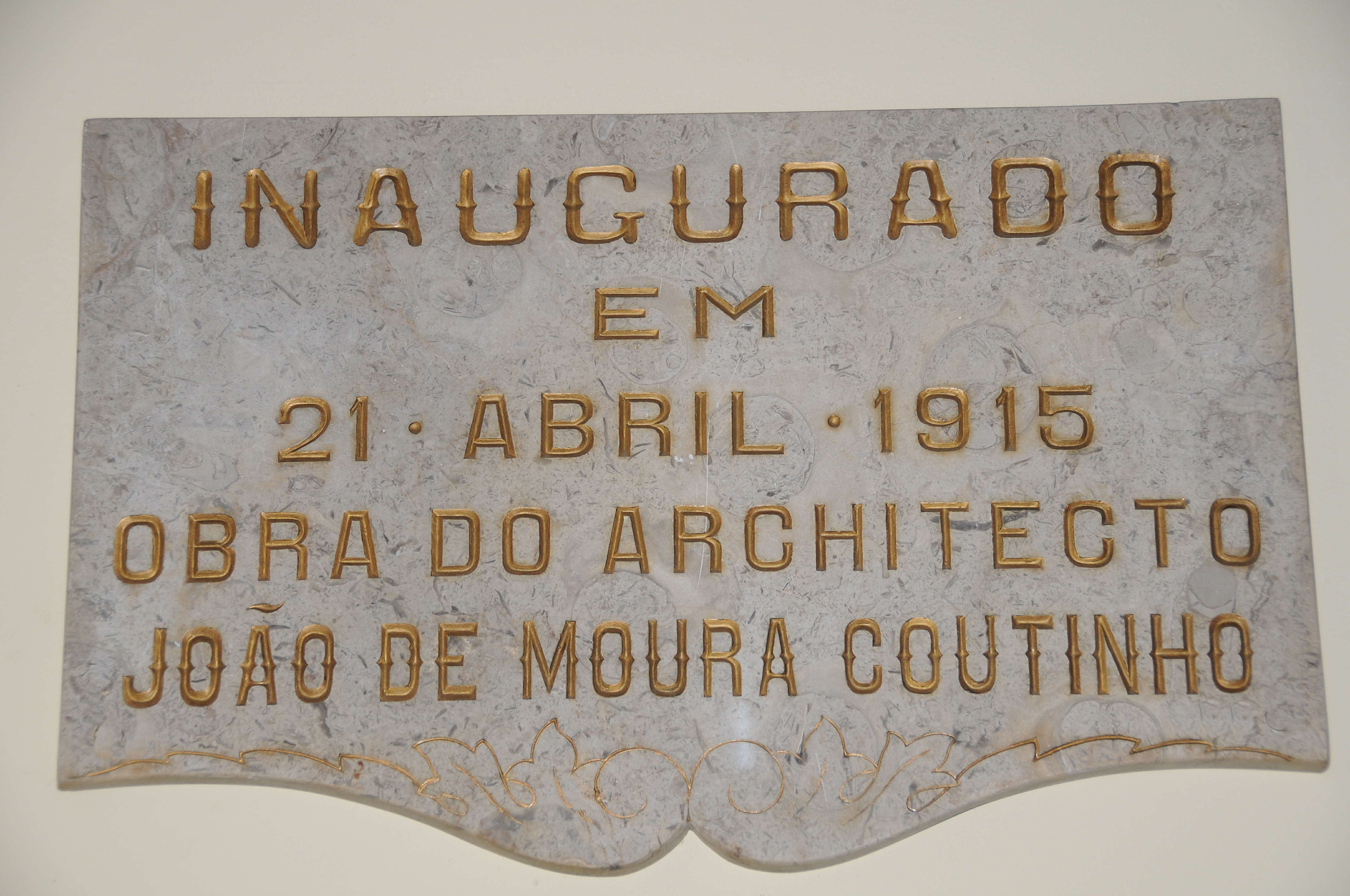 Theatro Circo in Braga, Portugal